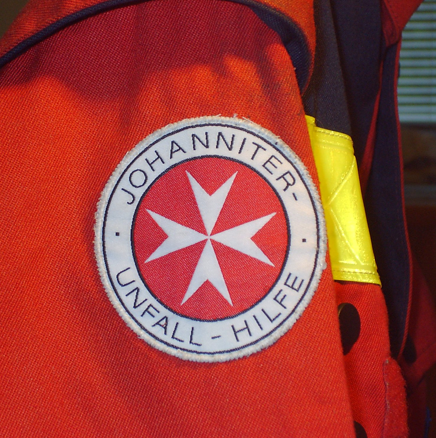 Patch on a coat (logo of the Johanniter-Unfall-Hilfe)